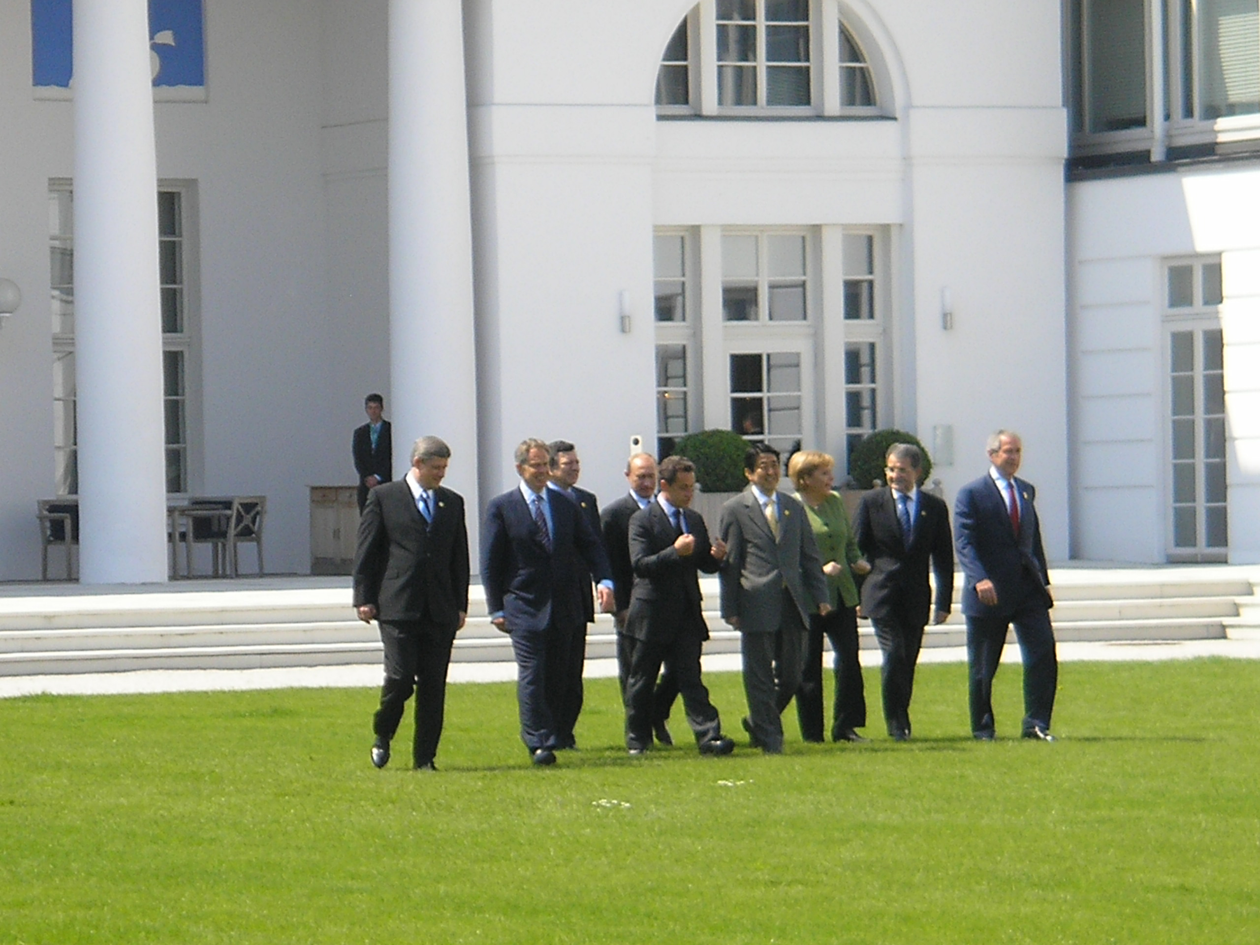 Canadian Prime Minister Stephen Harper, British Prime Minister Tony Blair, EU Commission president José Manuel Barroso, Russian president Vladimir Putin, French president Nicolas Sarkozy, Japanese Prime Minister Shinzo Abe, German chancellor Angela Merkel, Italian Prime Minister Romano Prodi, U.S. President George W. Bush, walking to meet the press at the G8 summit in Heiligendamm.